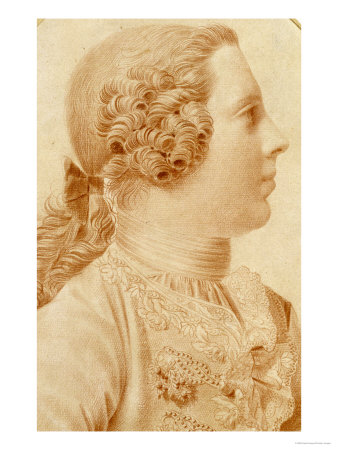 Charles Stuart - The Young Pretender. HUSSEY, GILES (1710-1788), painter, born at Marnhull, Dorsetshire, on 10 Feb. 1710, was fifth son of John Hussey of Marnhull, by his wife, Mary, daughter of Thomas Burdett of Smithfield. Hussey was educated at the English Benedictine college at Douay, and afterwards at St. Omer.